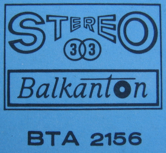 The logo of Balkanton as seen on their record sleeve "Famous Jazz Singers".